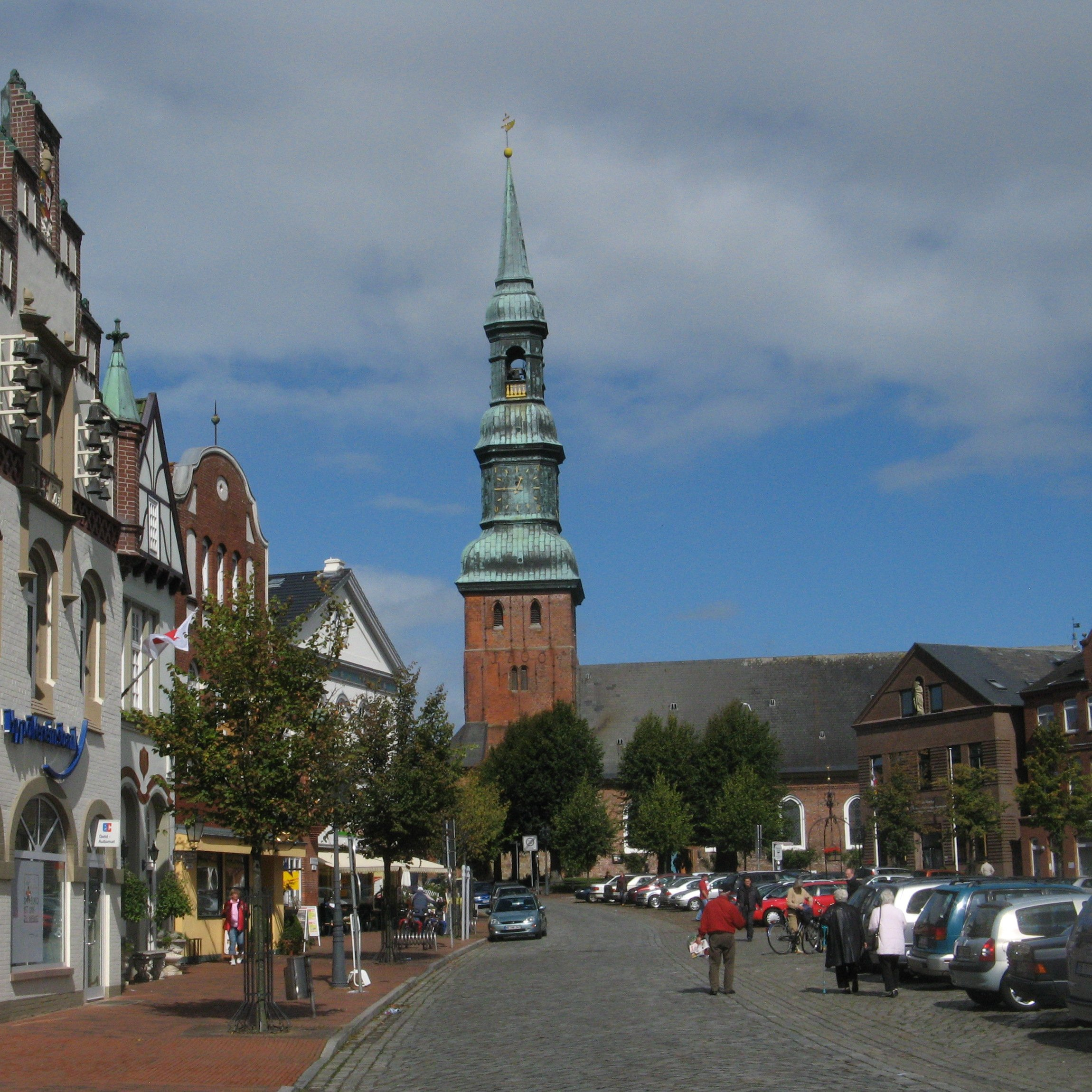 market square and st. laurentius church in tönning